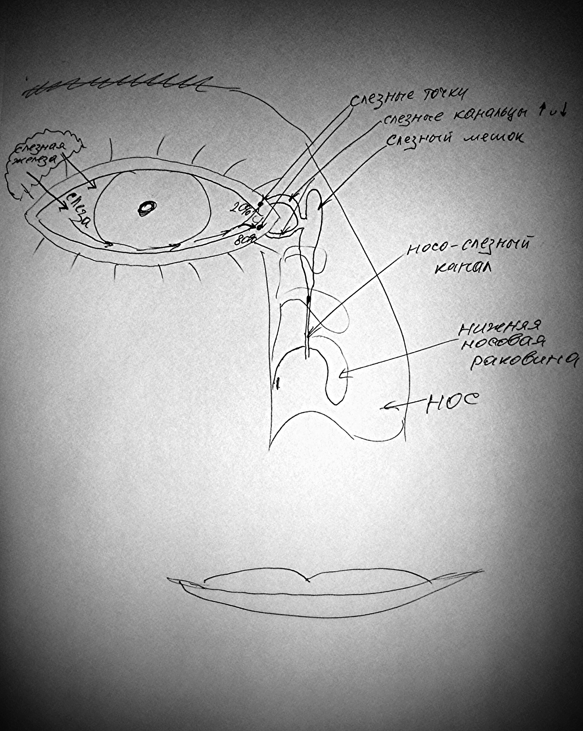 Схема оттока слезы из коньюнктивальной полости в носослезный канал